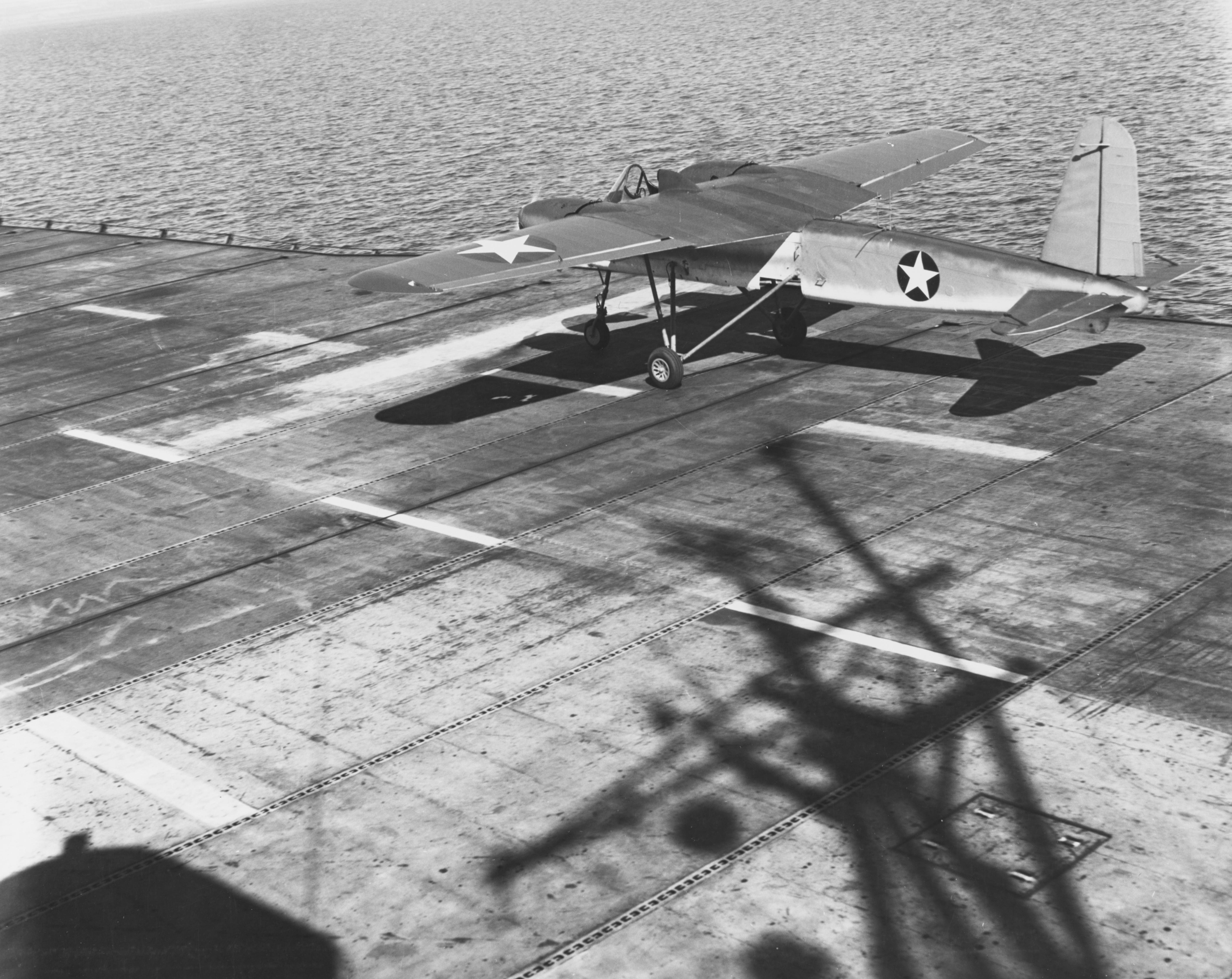 The U.S. Navy training carrier USS Sable (IX-81) launching a Naval Aircraft Factory TDN-1 drone while steaming off Traverse City, Michigan (USA), during flight tests on 10 August 1943. Note this aircraft's unoccupied cockpit. The TDN was intended for use as a television-guided attack drone.